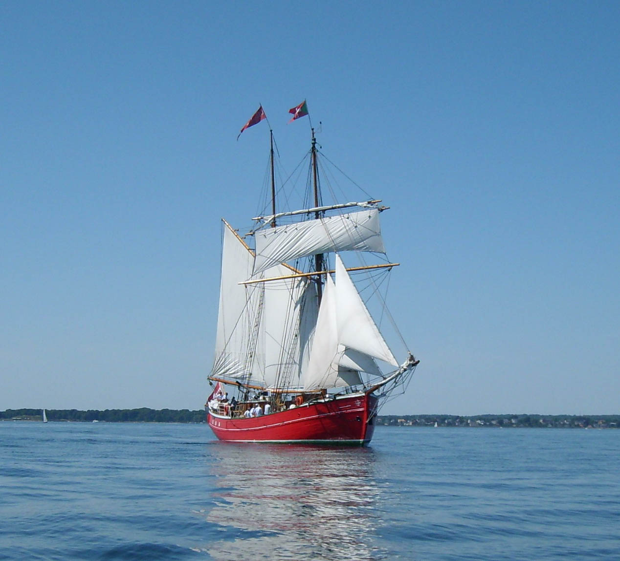 Schooner "Lilla Dan"